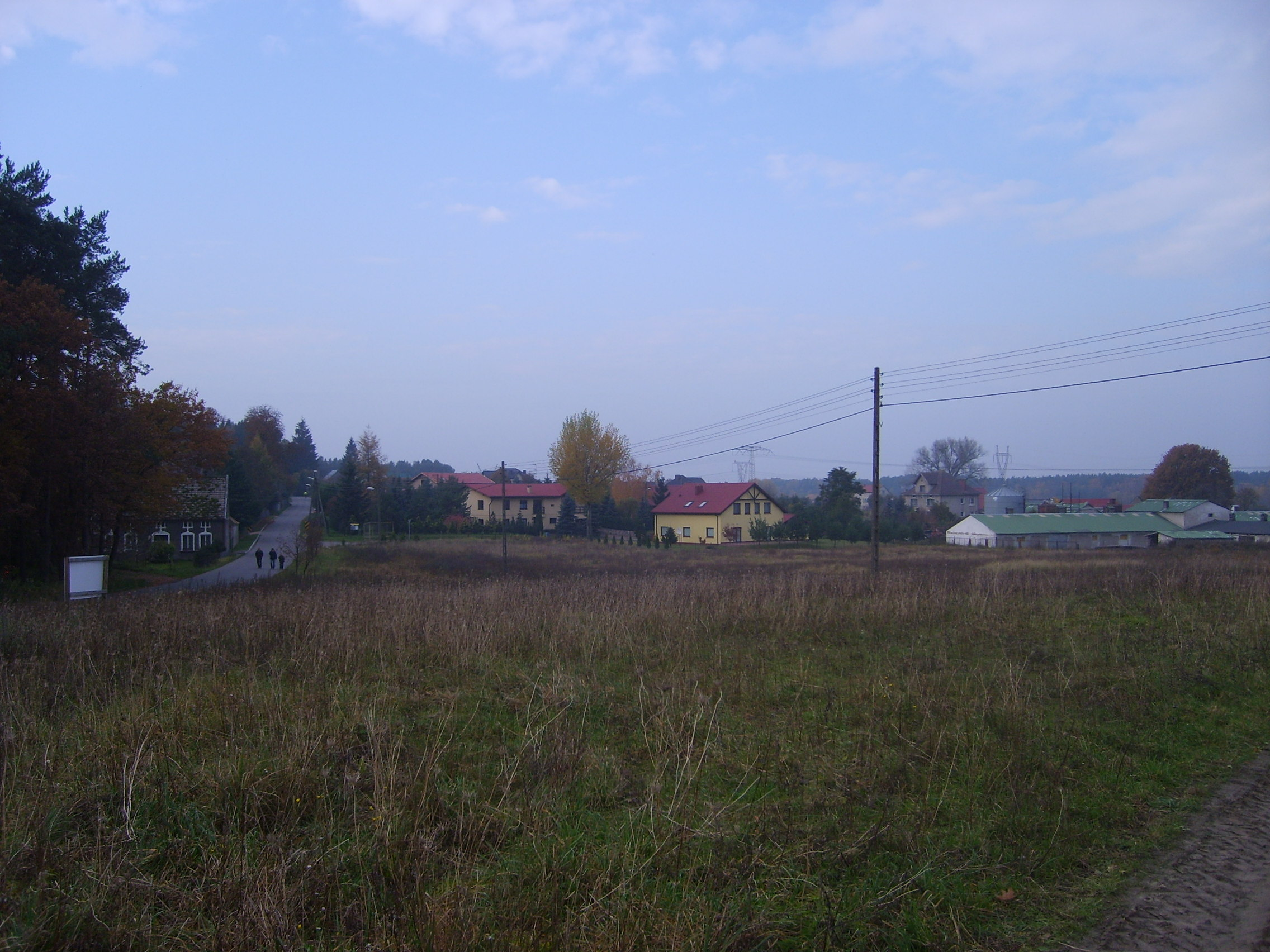 Skyline of Kałęga, a village outside Motaniec in Poland.